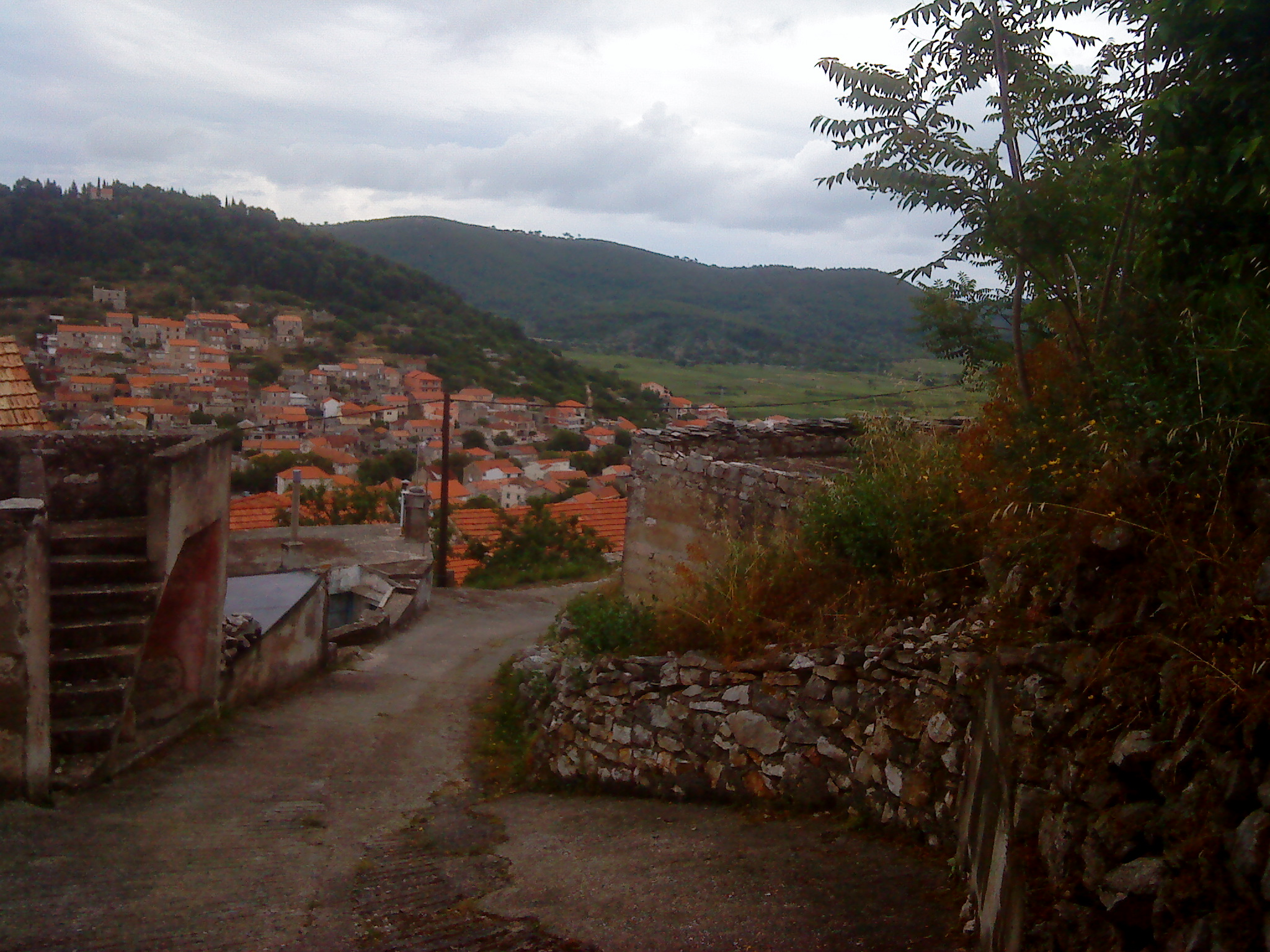 Blato on Korčula